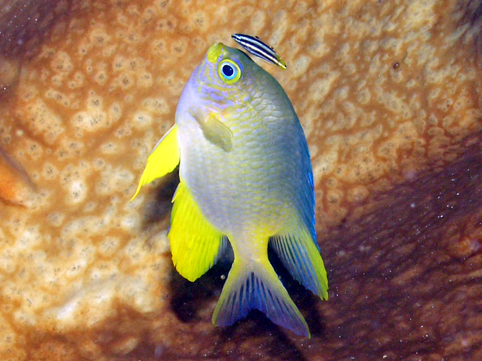 Diproctacanthus xanthurus (above) and Lemon Damselfish, Bunaken Island You are free to use this image on condition you provide a credit link to